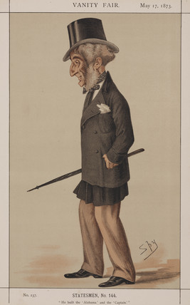 Caricature of John Laird MP. Caption read "He built the 'Alabama' and the 'Captain'".